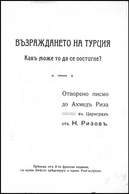 Renaissance of Turkey